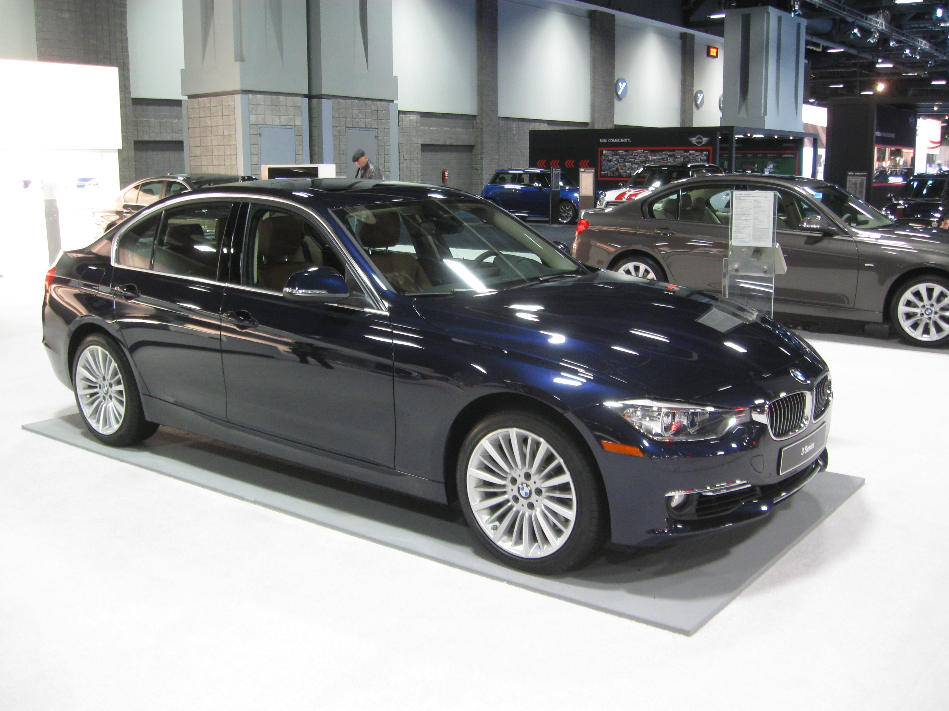 2012 BMW 335i photographed in Washington, D.C., USA.